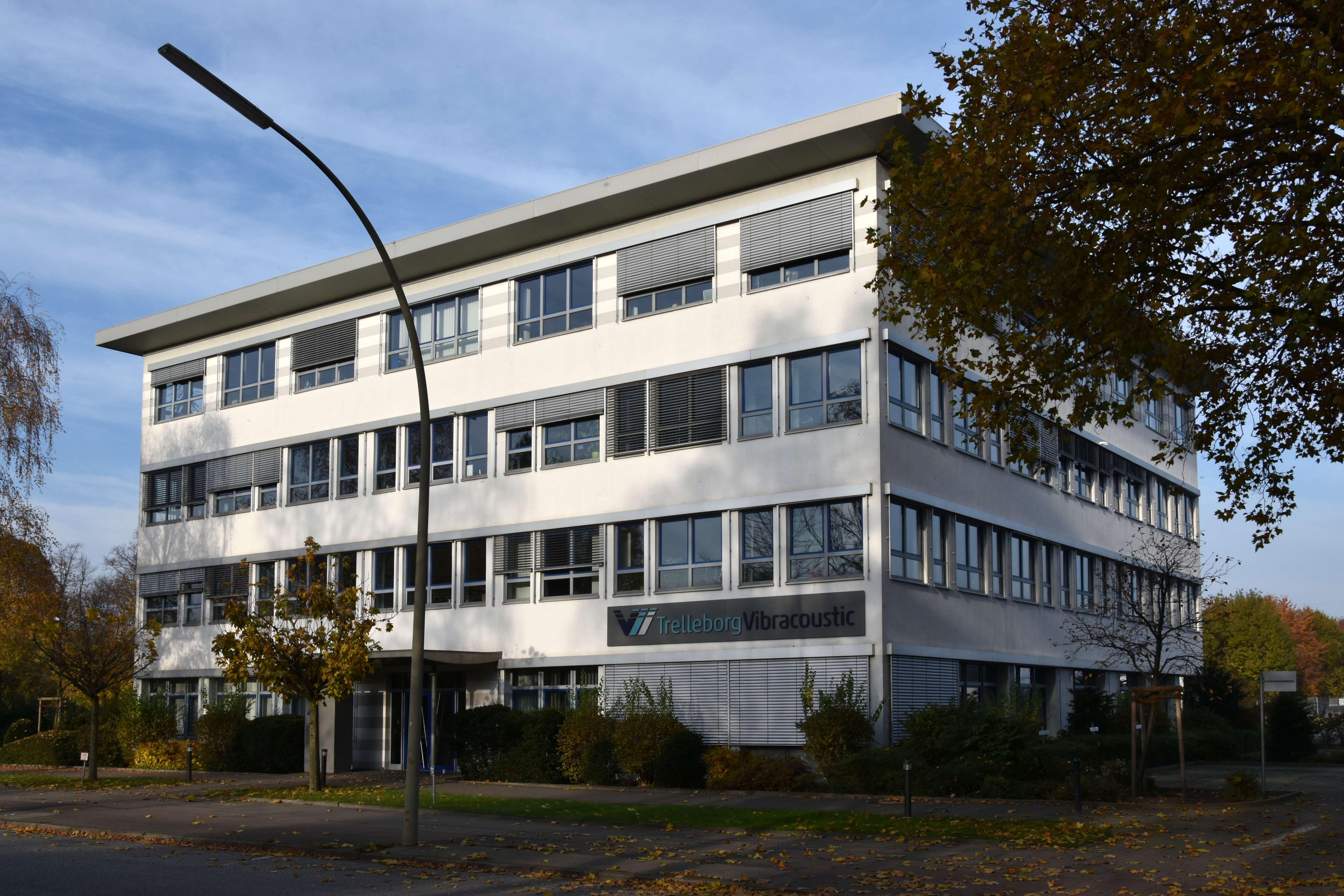 Office building of TrelleborgVibracoustic GmbH (formerly Vibracoustic, now a subsidiary of Trelleborg AB, of Sweden) on Hörstener Straße, Hamburg-Harburg.